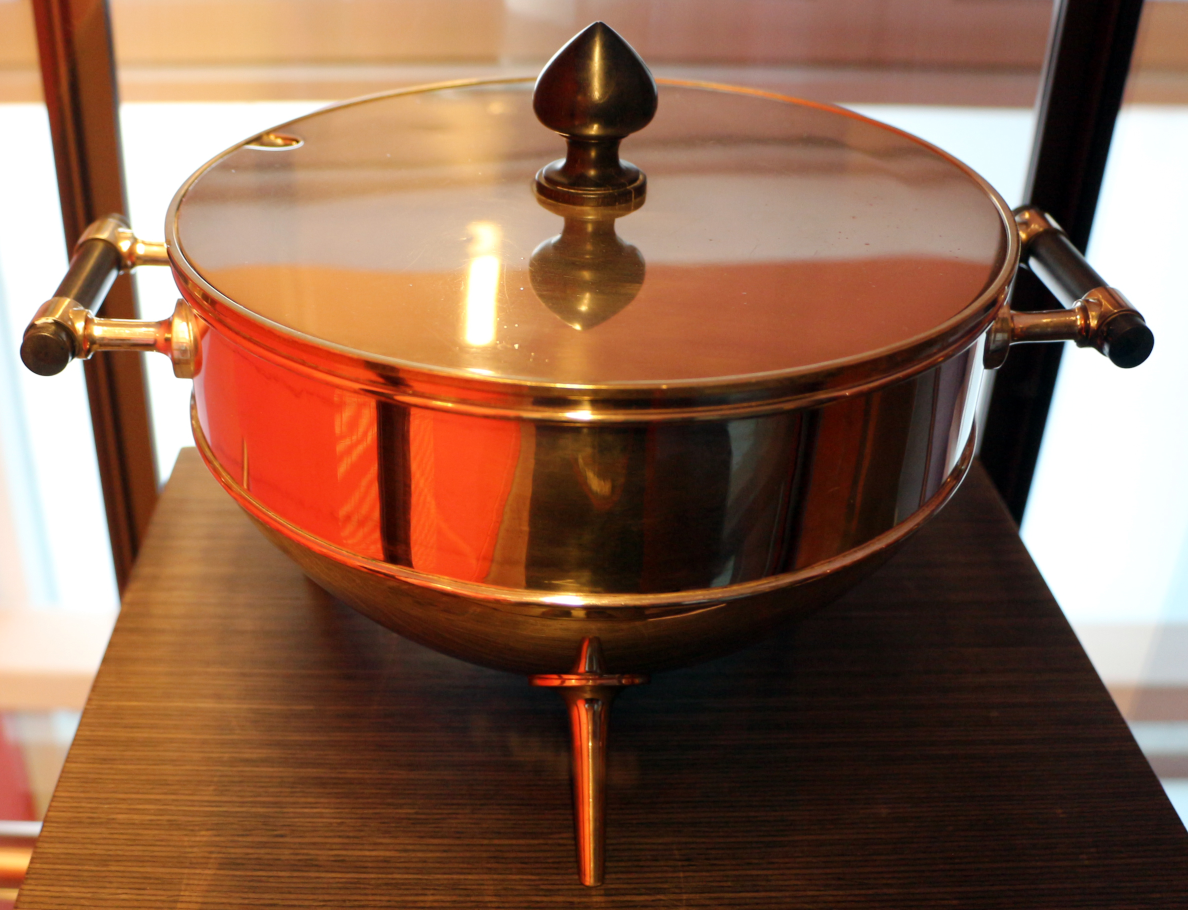 Decorative arts in the Musée d'Orsay